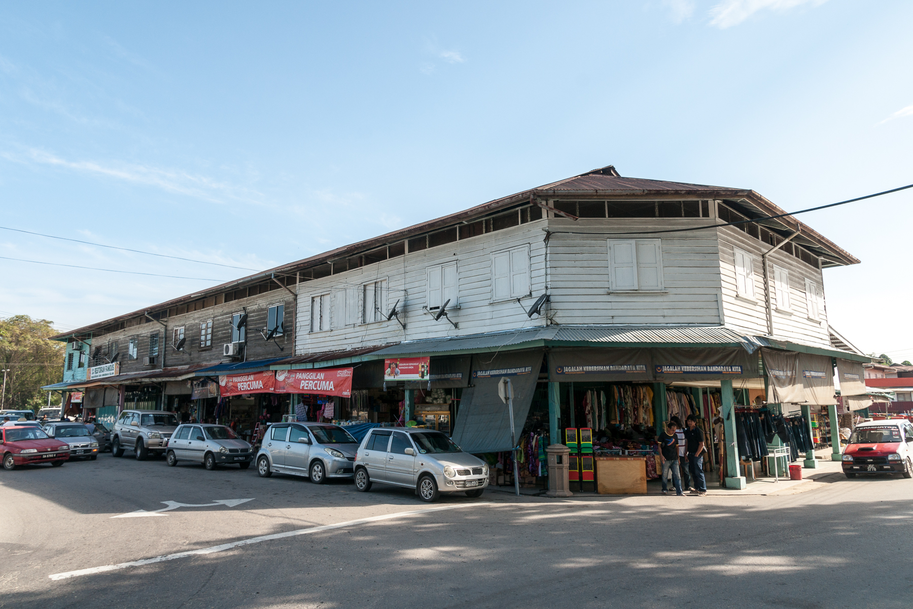 Rivers of Sabah, Malaysia: Old Colonial Shop Row